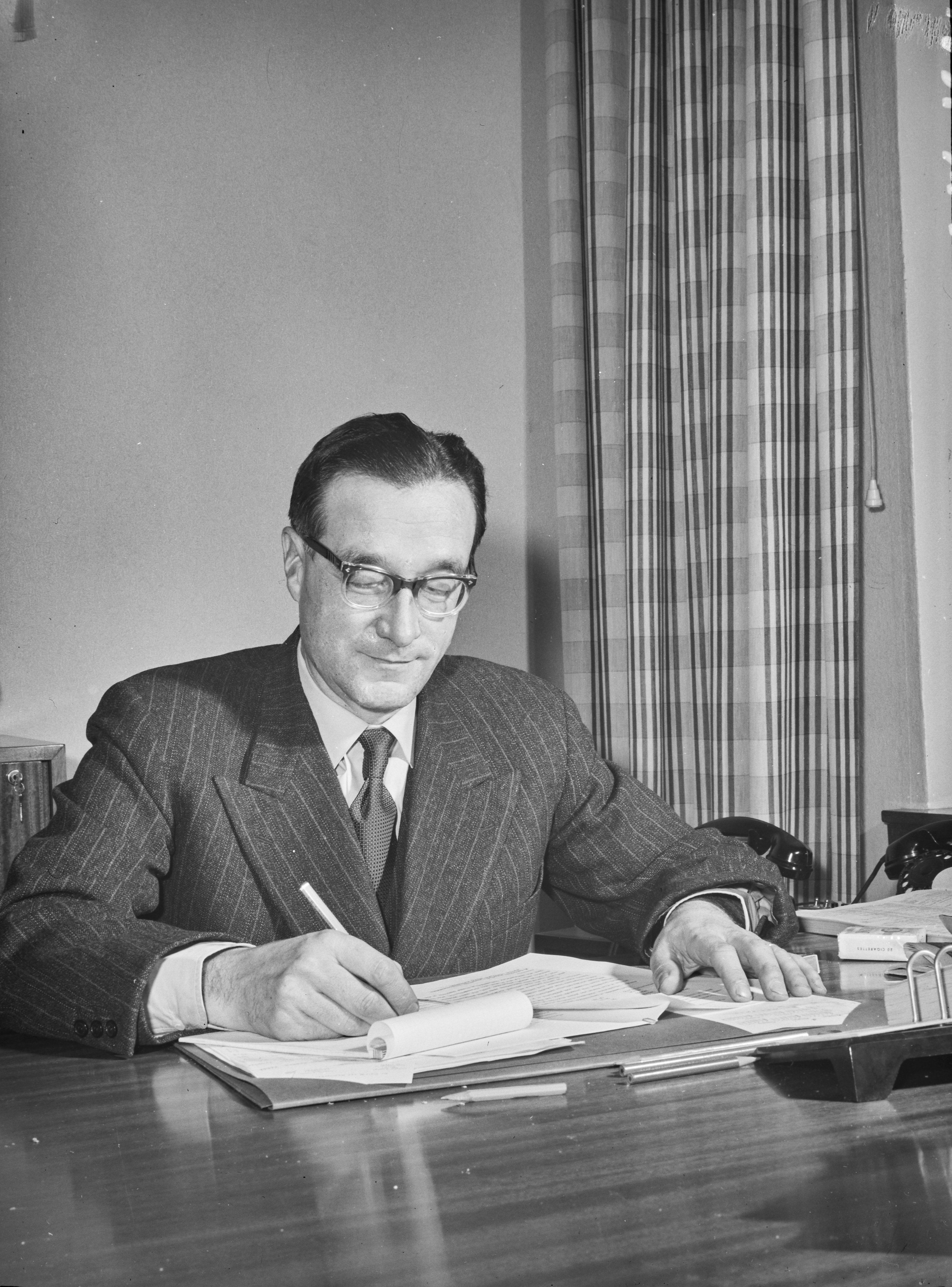 Photograph of the Finnish agriculturalist Veikko Ihamuotila (1911–1979).